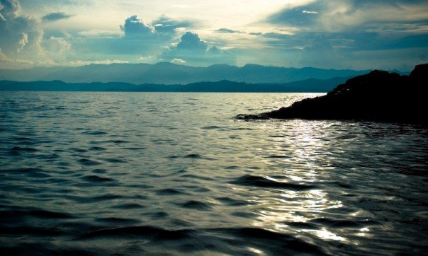 Shore of Lake Kivu, near Bukavu.